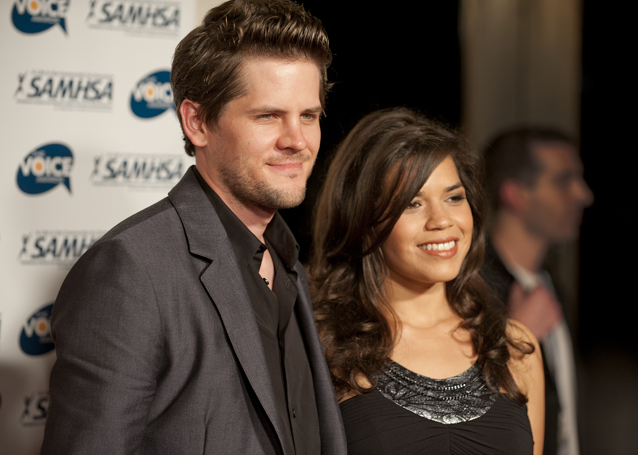 "The Dry Land" and "Ugly Betty" star America Ferrera posed with fiance and Voice Award winning writer and director of "The Dry Land," Ryan Piers Williams, on the red carpet at the 2010 Voice Awards at Paramount Studios in Hollywood on October 13. Photo Credit: SAMHSA For more information on the Voice Awards, visit